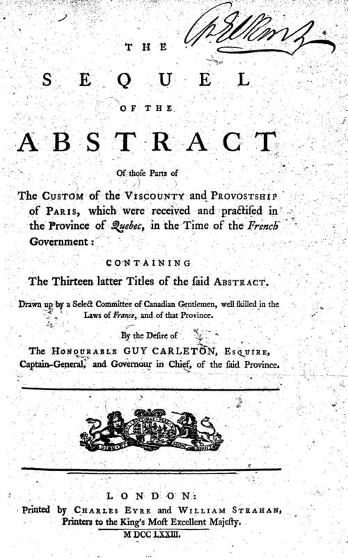 The sequel of the abstract of those parts of the custom of the viscounty and provostship of Paris, which were received and practiced in the province of Quebec in the time of the French government : containing the thirteen latter titles of the said abstract, drawn up by a select committee of Canadian gentlemen well skilled in the laws of France and of that province, by the desire of the Honourable Guy Carleton, Esquire, Captain General and Governour in Chief of the said province.